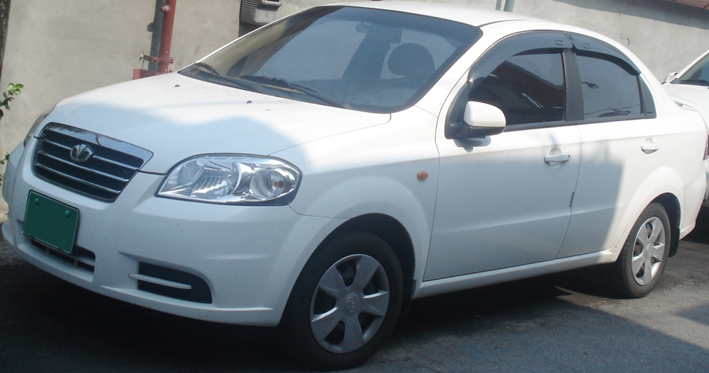 Daewoo Gentra